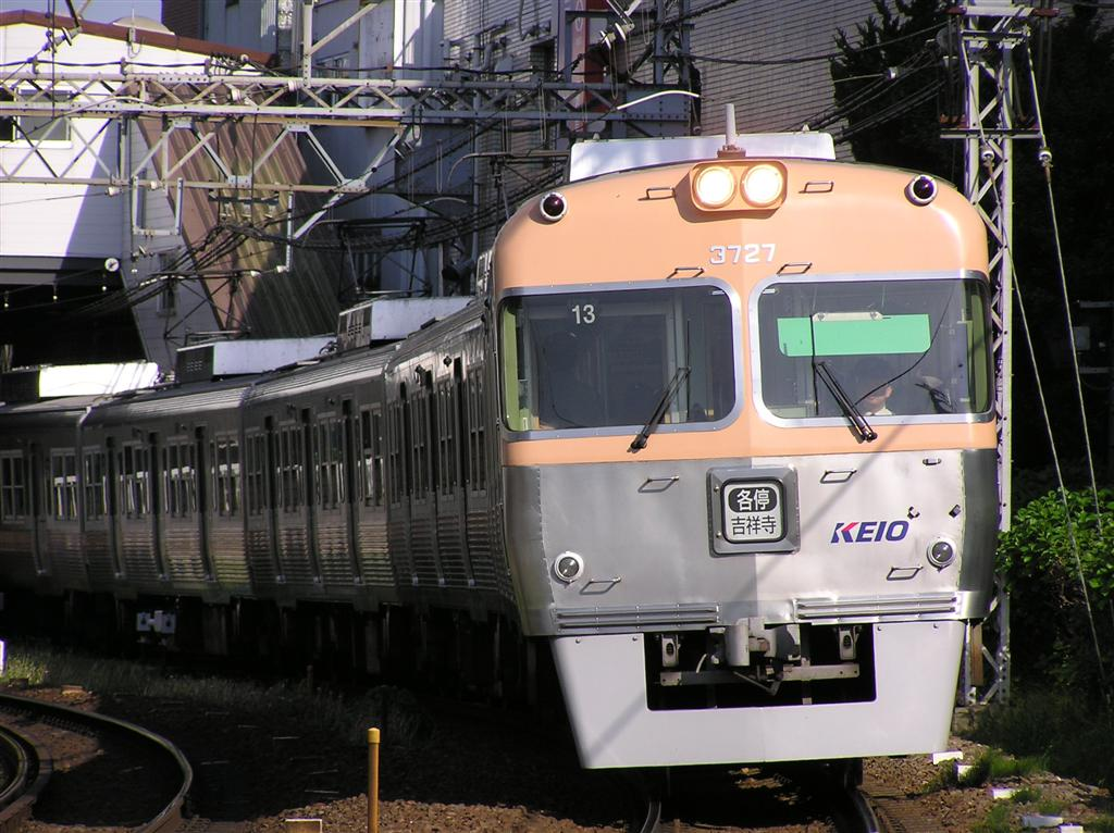 Keio 3000 series EMU set 3727 on the Keio Inokashira Line